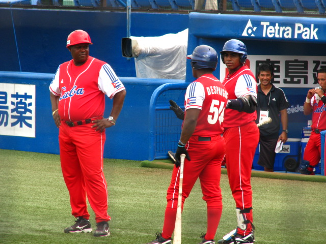 (From left to right) Omar Linares, Alfredo Despaigne and Yoenis Céspedes